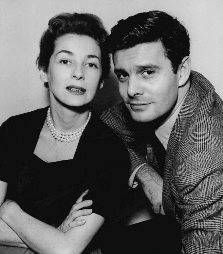 Photo of Felicia Montealegre (wife of composer/conductor Leonard Bernstein) and Louis Jourdan for the Broadway production Tonight in Samarkand (1955).